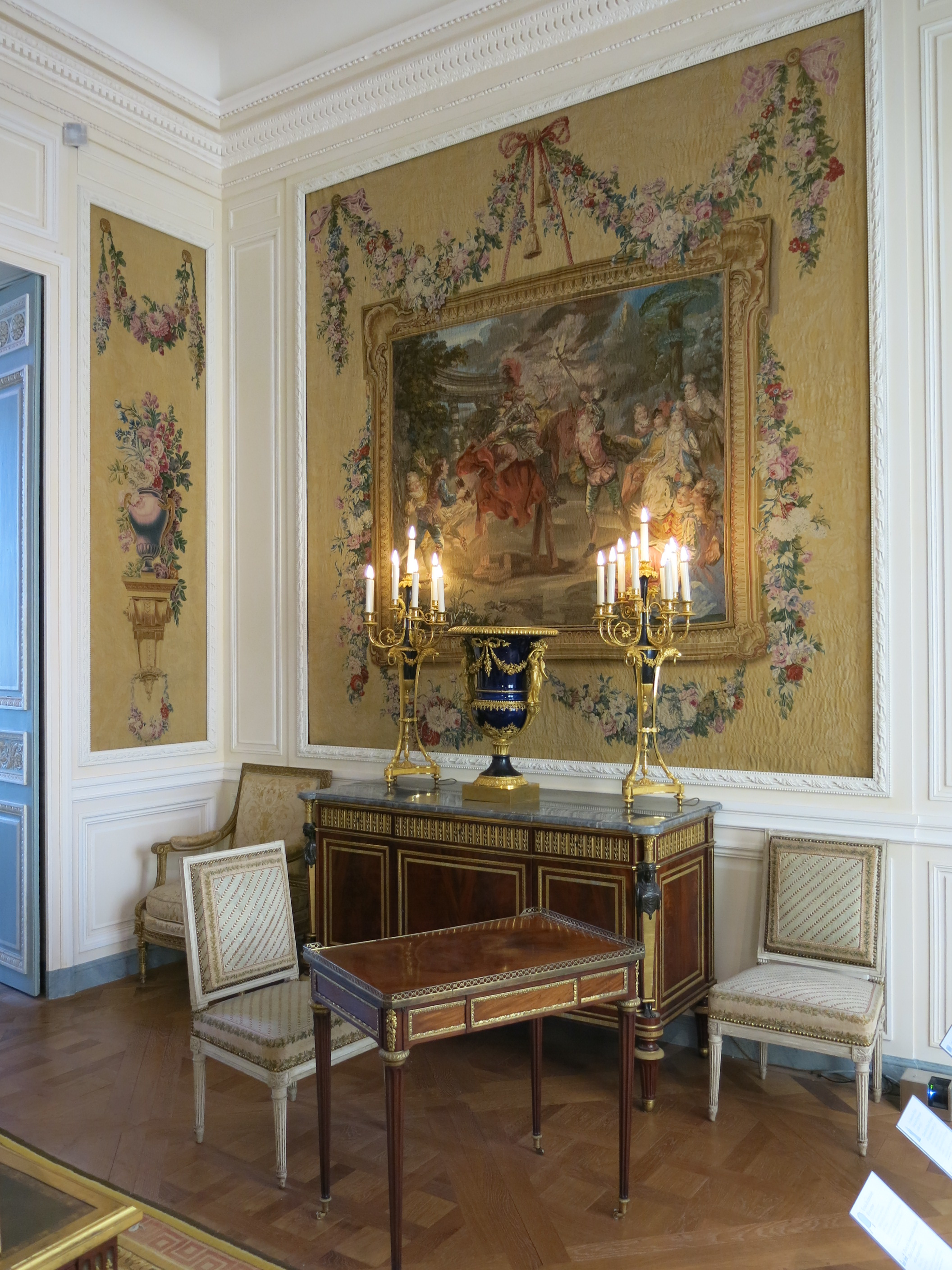 Furniture of royal residences (Louvre museum, Room 59 of Decorative Arts.